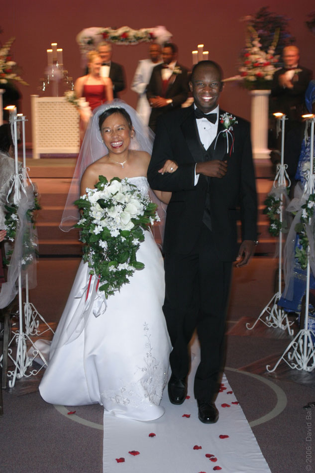 A couple leaving the altar.